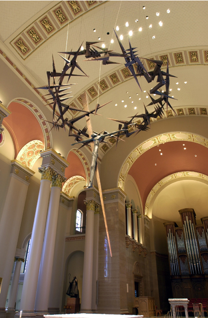 Ecclesia Cathedralis Milvauchiae. Opus meum est.